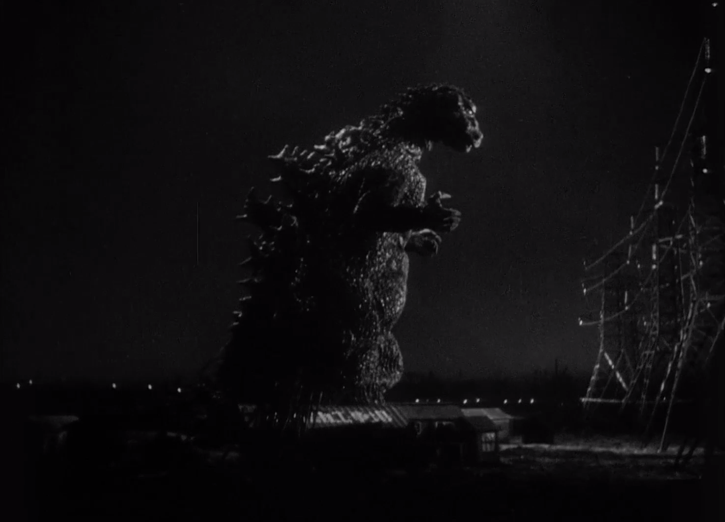 Scene from Godzilla: King of the Monsters.